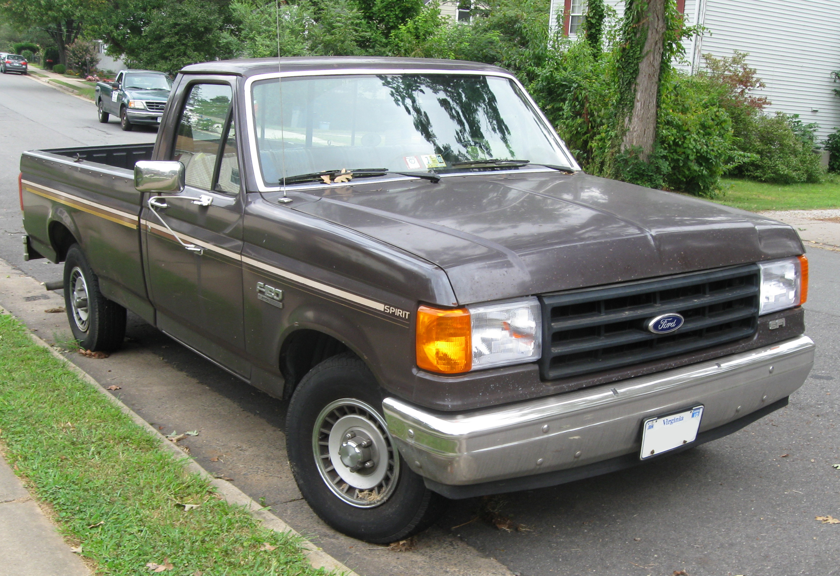 1987-1991 Ford F-150 photographed in Fairfax, Virginia, USA.